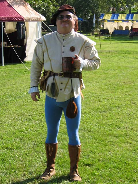 A man's Renaissance-era costume with tights. I am the photographer and subject.